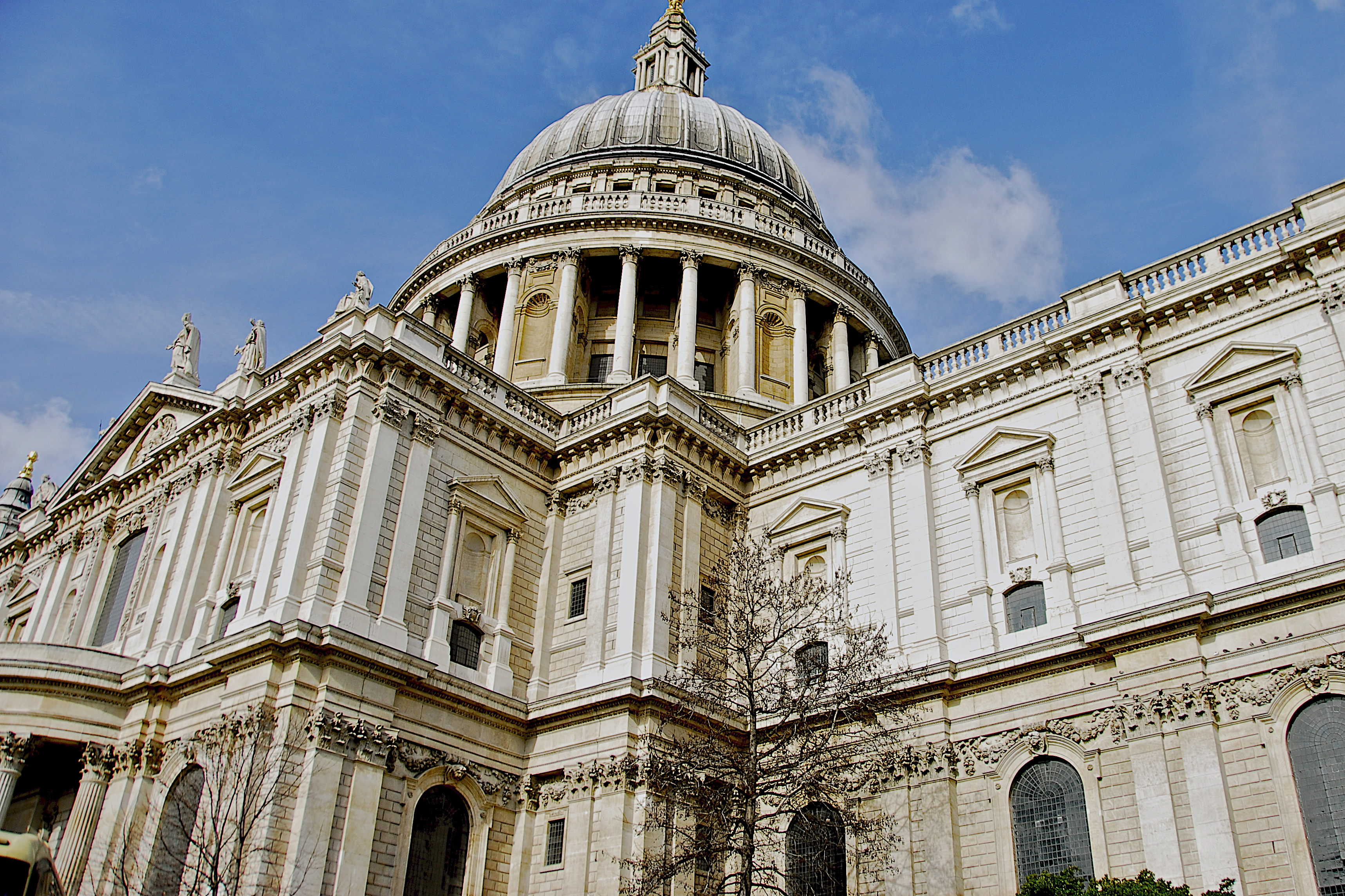 St. Paul's Cathedral, 4 March 2010